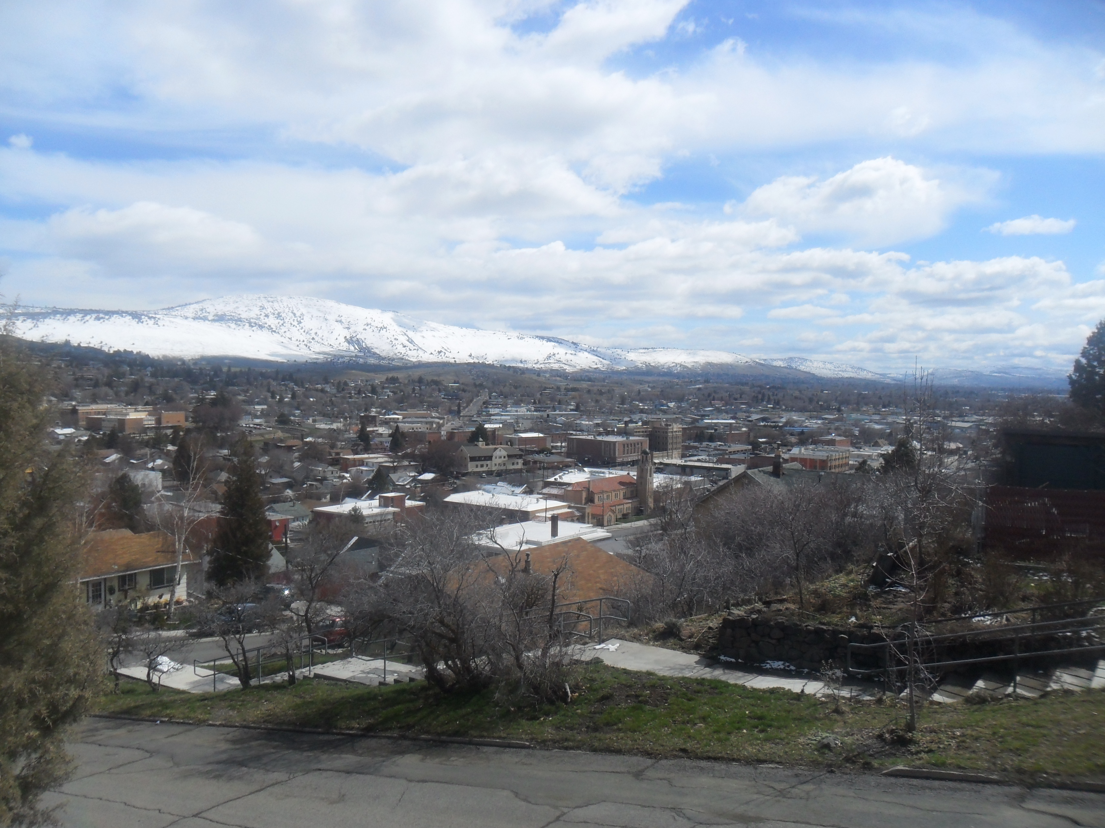 Downtown Klamath Falls, Oregon.